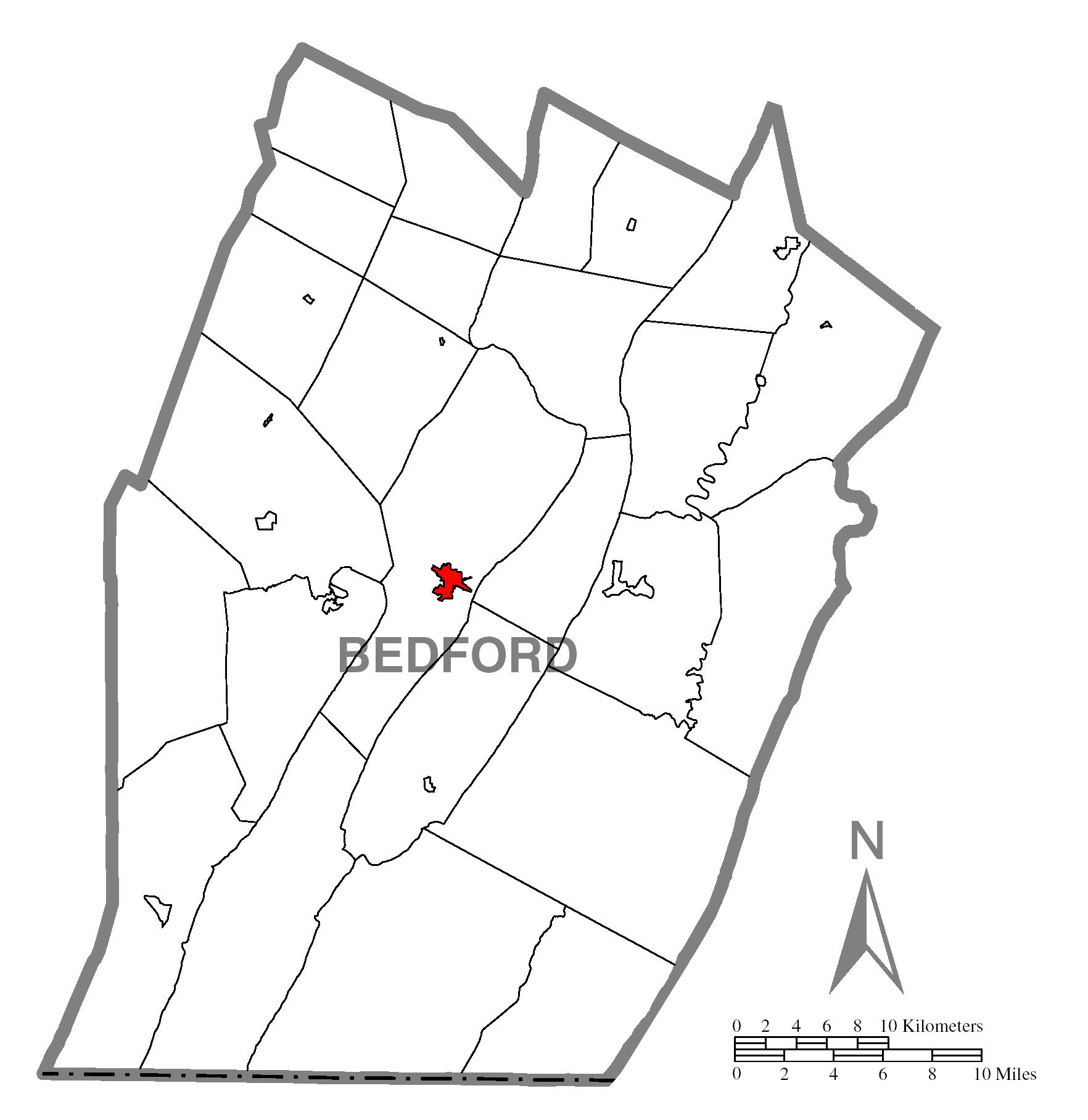 A map of Bedford County showing Bedford, Pennsylvania (alternate) highlighted on the map.